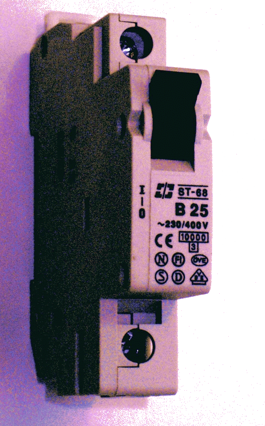 A magnetic circuit breaker Nēhiyawēwin / ᓀᐦᐃᔭᐍᐏᐣ: Magnetski osigurač